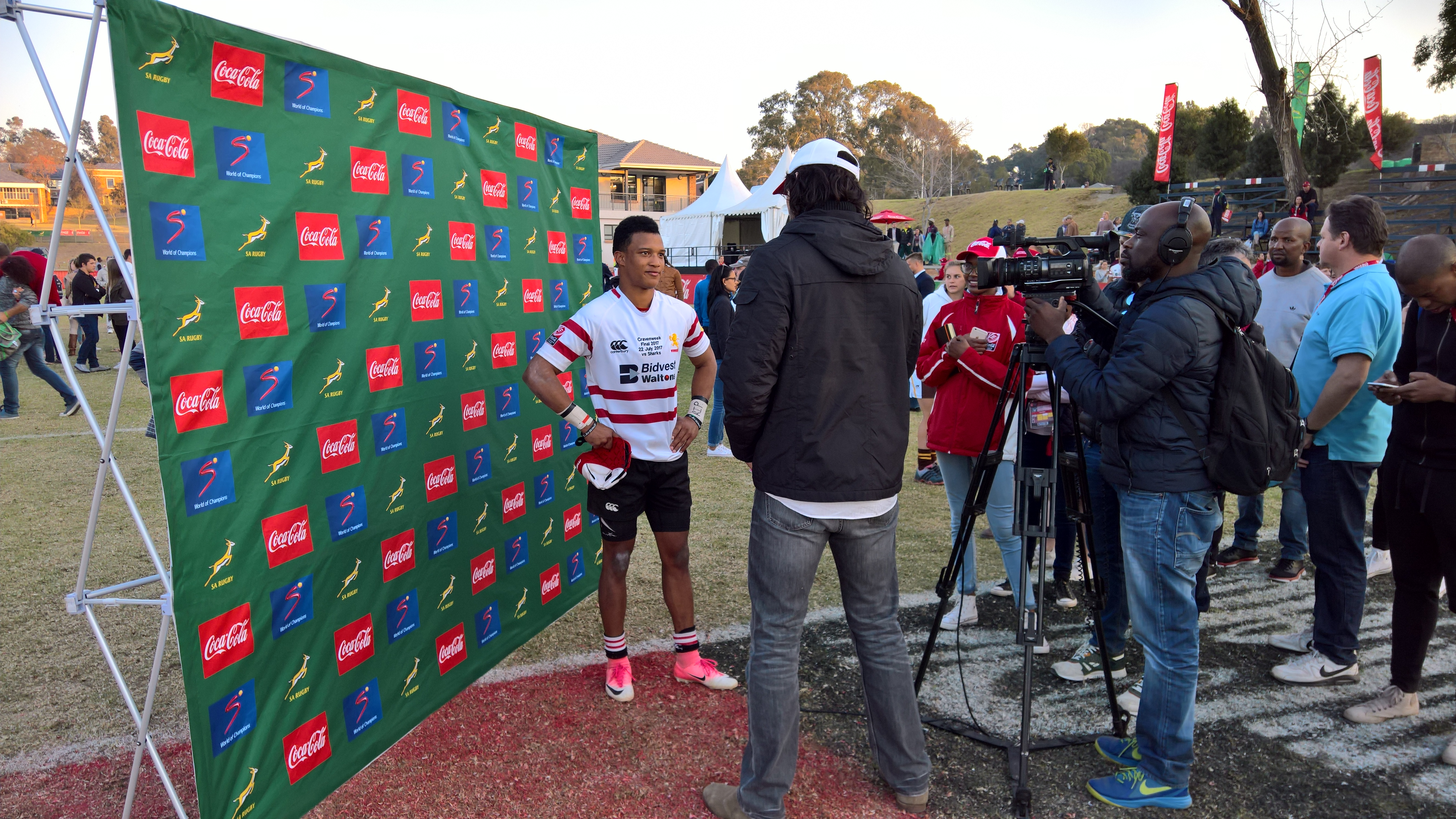 The winner of the South African schools rugby week, the Lions. Hosted by St. Stithians. This is an image of "African people at work" from South Africa